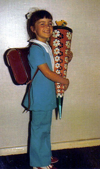 First day in school of a German girl aged 6